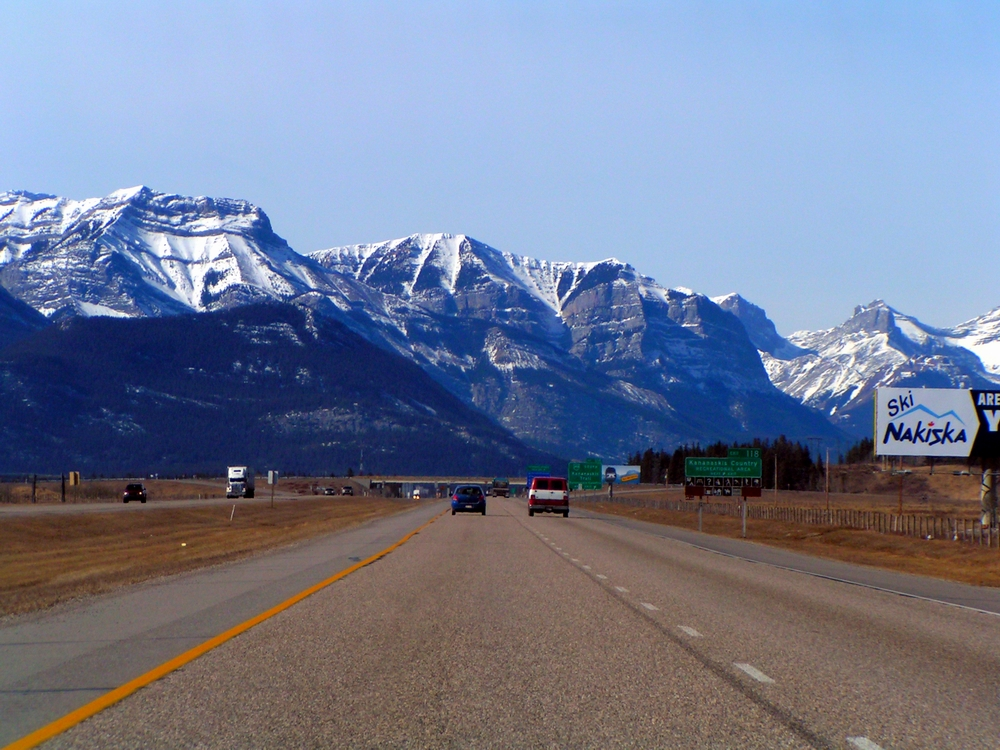 Trans-Canada Highway in Alberta towards the Rocky Mountains